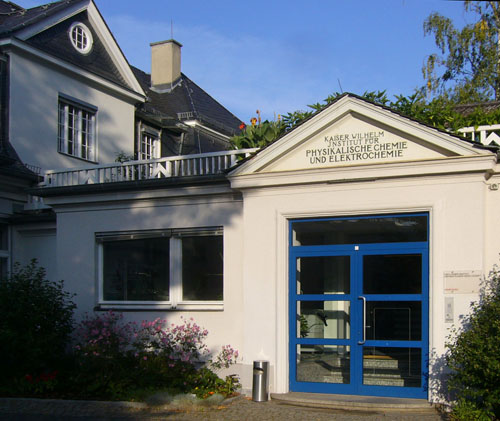 Entrance to the Fritz-Haber-Institute with original inscription "Kaiser Wilhelm Institut für Physikalische Chemie und Elektrochemie" and architectural elements from around 1920